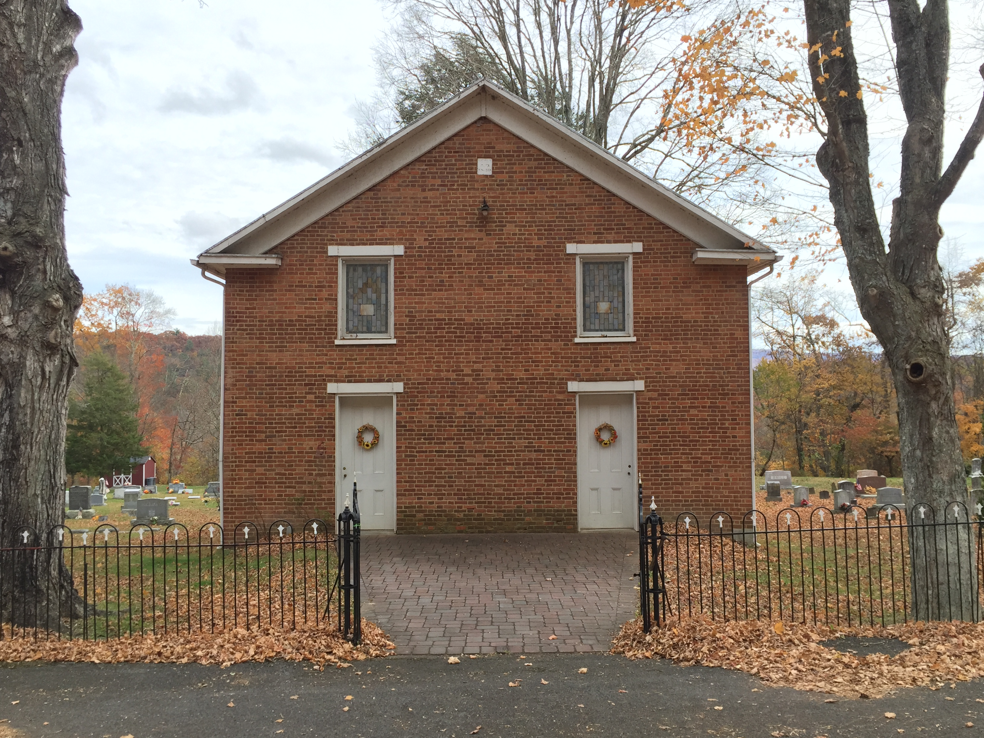 Old Hebron Lutheran Church along West Virginia Route 259 in Intermont, West Virginia, United States. Photographed by Justin A. Wilcox on October 25, 2015.